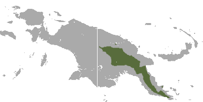 Goodfellow's Tree Kangaroo (Dendrolagus goodfellowi) range